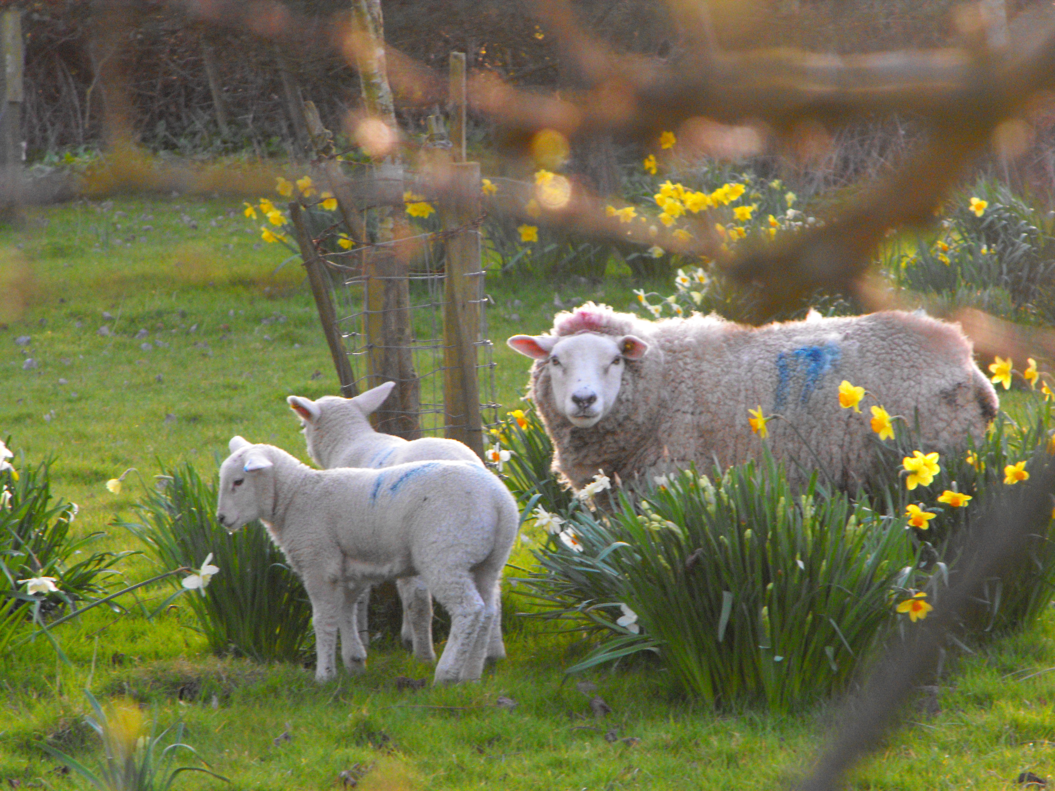 Sheep in Highbridge, UK